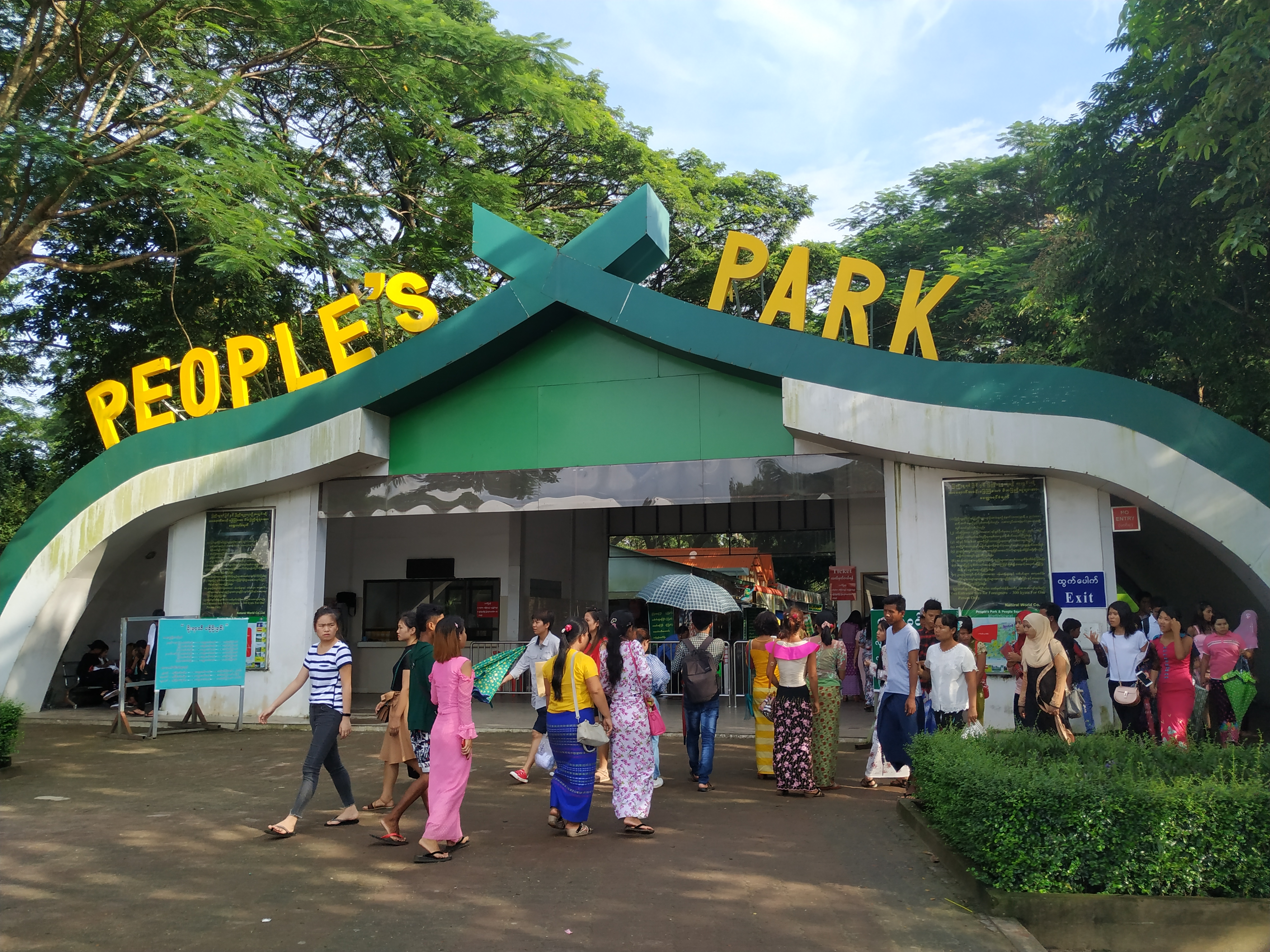 Entrance of Yangon People's Park, Dhamma Sadi Road, Yangon မြန်မာဘာသာ: ရန်ကုန် ပြည်သူ့ရင်ပြင် အဝင်ဝ၊ ဓမ္မစေတီလမ်း၊ ရန်ကုန်